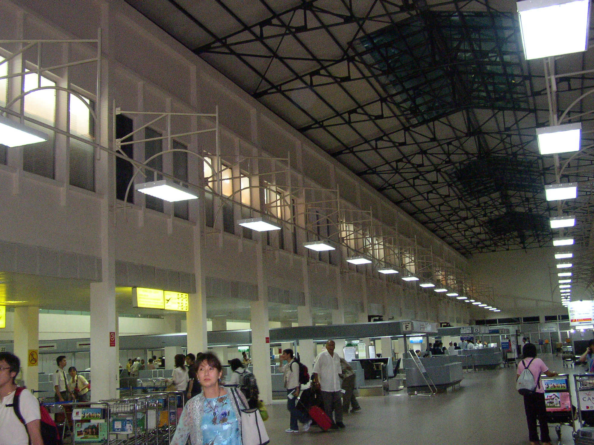 Tan Son Nhat International Airport near by Hochiminh city in Vietnam taken 4th September 2006